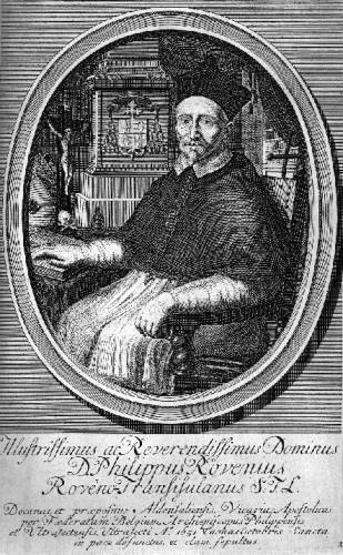 Philippus Rovenius, Dutch apostolic vicar